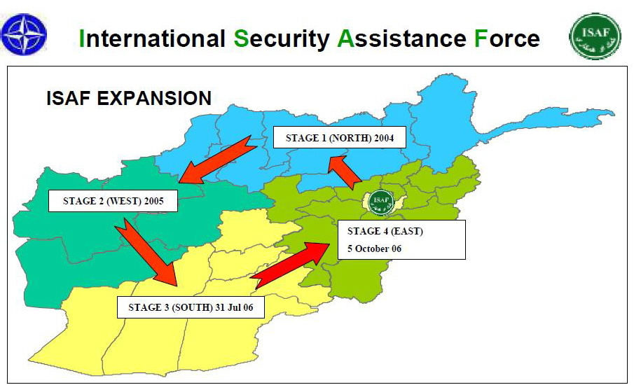 This image geographically depicts the four ISAF stages and lists the implementation date for each stage.